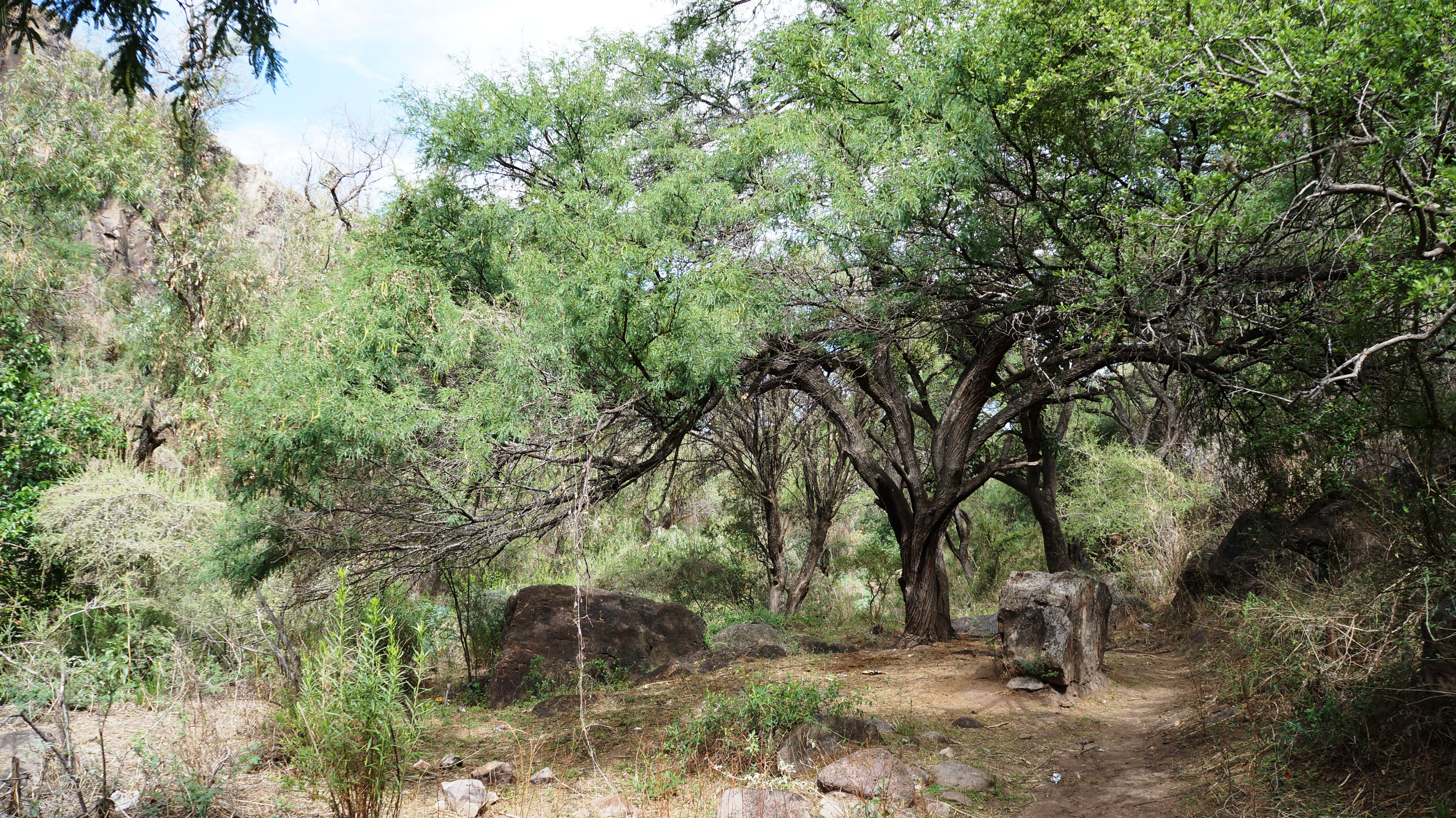 Creek habitat in the north of Jalisco, Mexico